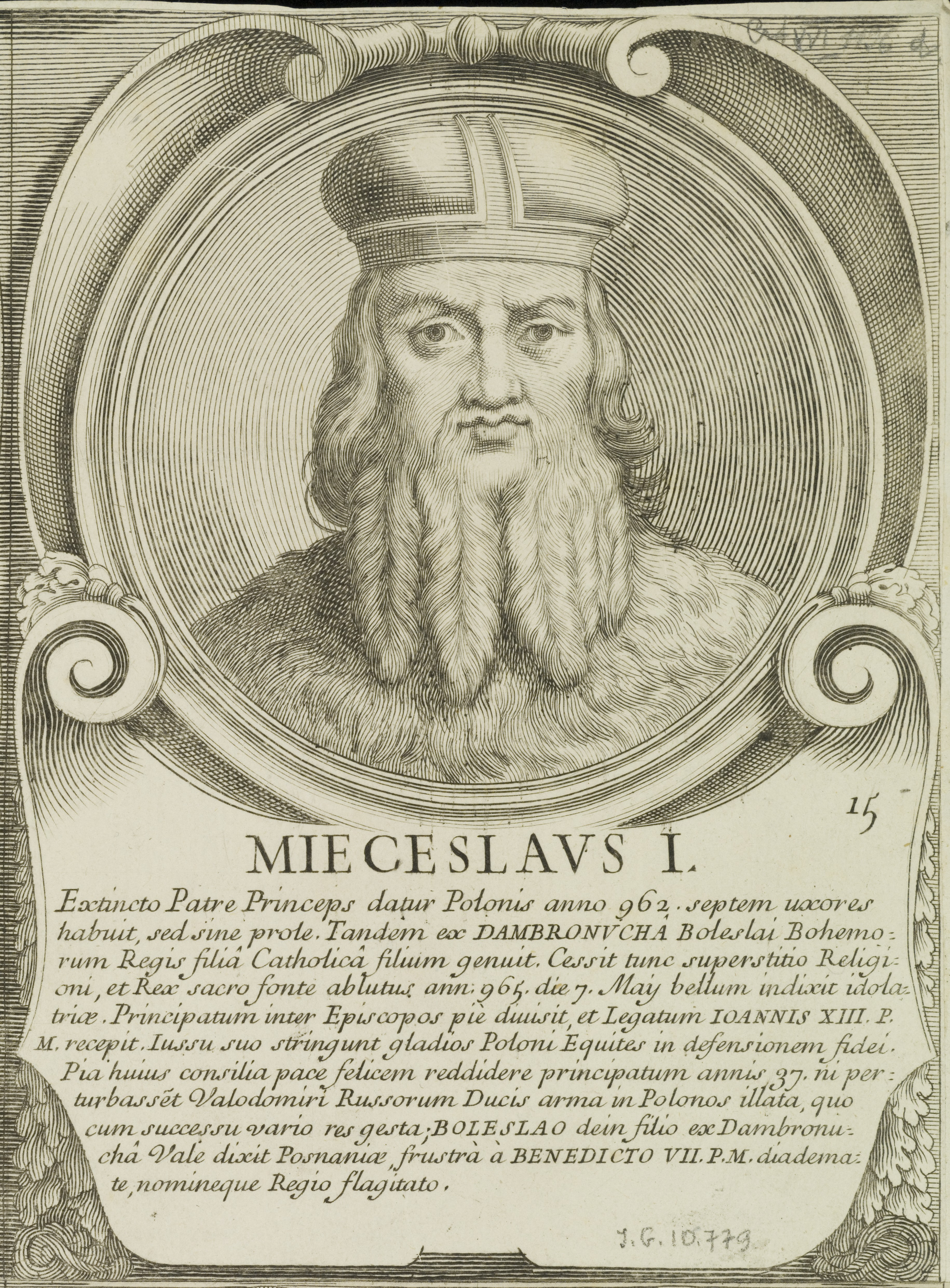 Duke Mieszko I of Poland